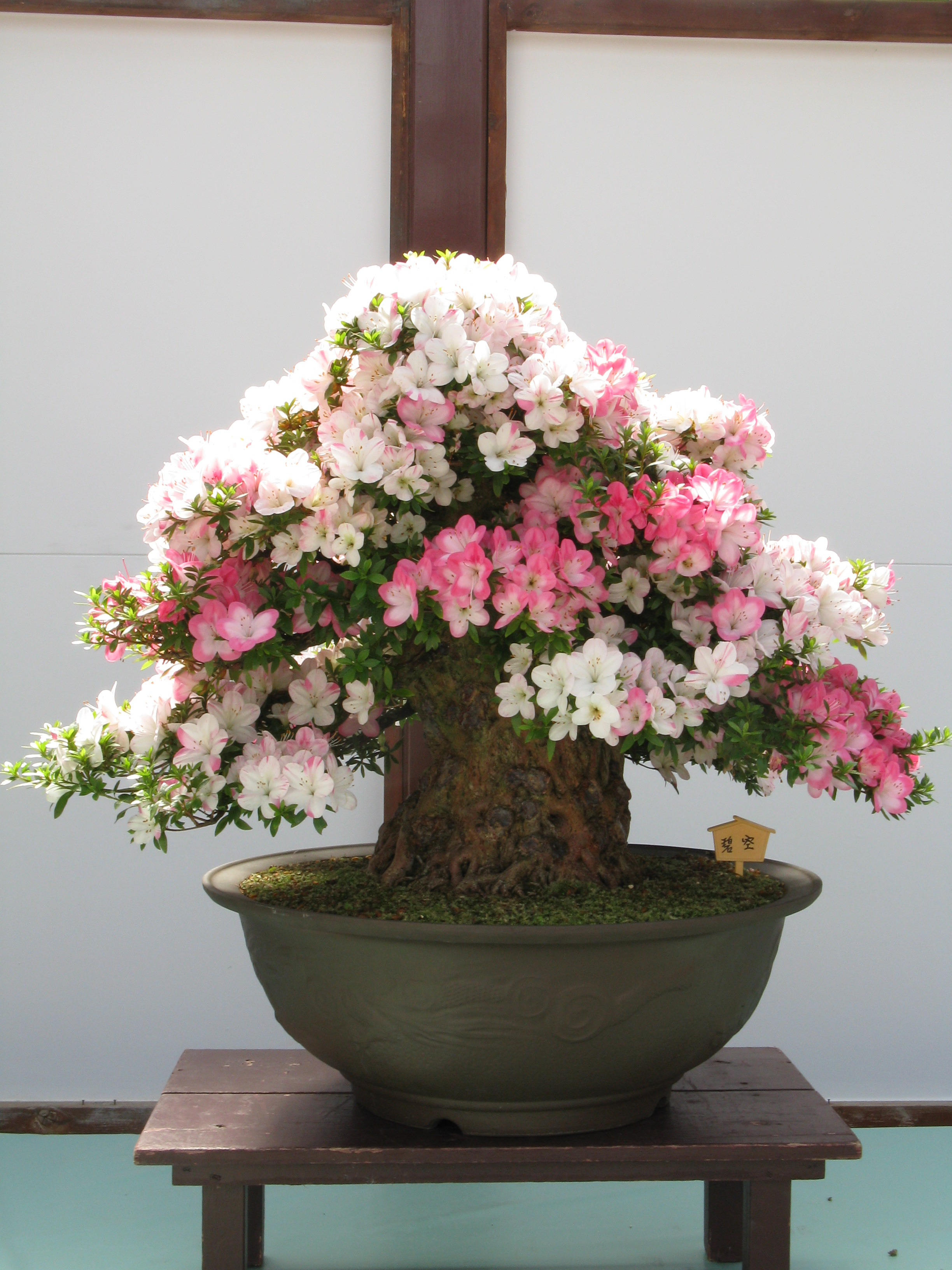 Scientific name Rhododendron indicum (bonsai)